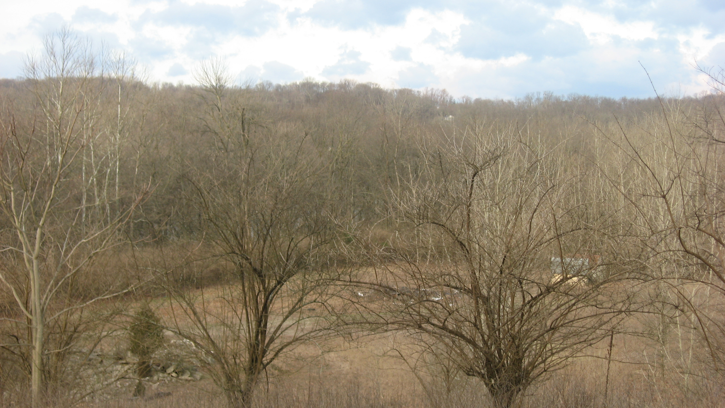 Woods and a field along the eastern side of the Great Miami River, seen from a trailer park in Grandview in Miami Township, Hamilton County, Ohio, United States. In the woods is an archaeological site known as the Dravo Gravel Site; it is listed on the National Register of Historic Places.